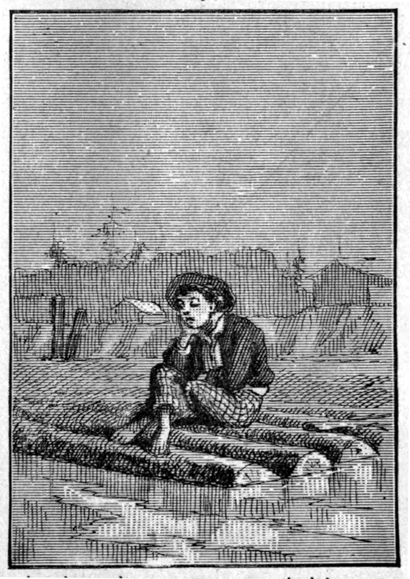 Scan of illustration from the book Adventures of Tom Sawyer, written by Mark Twain & illustrated by True Williams (Trueman W. Williams).